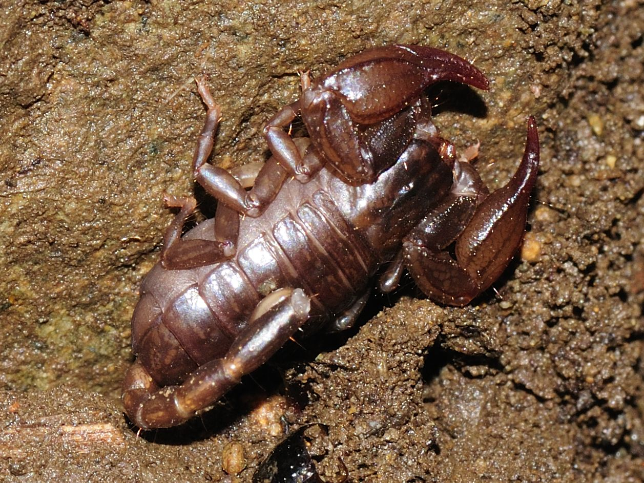 Euscorpius cf. mingrelicus in the Mtirala Nationalpark in Georgia. Habitat: Below a stone on a forested flank of a river. Roughly 30 meters above the river.